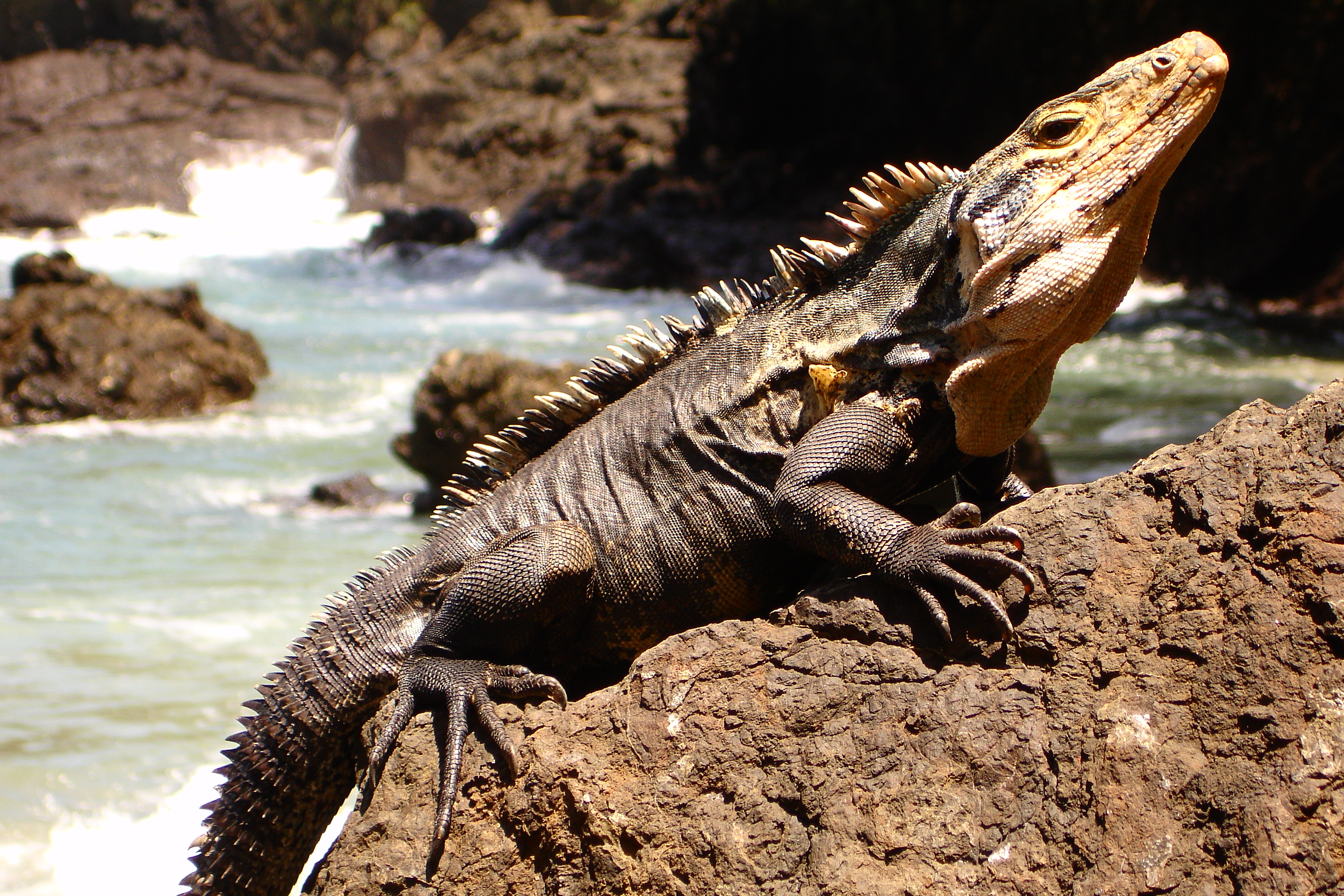 Black Iguana (Ctenosaura similis) found in Manuel Antonio National Park